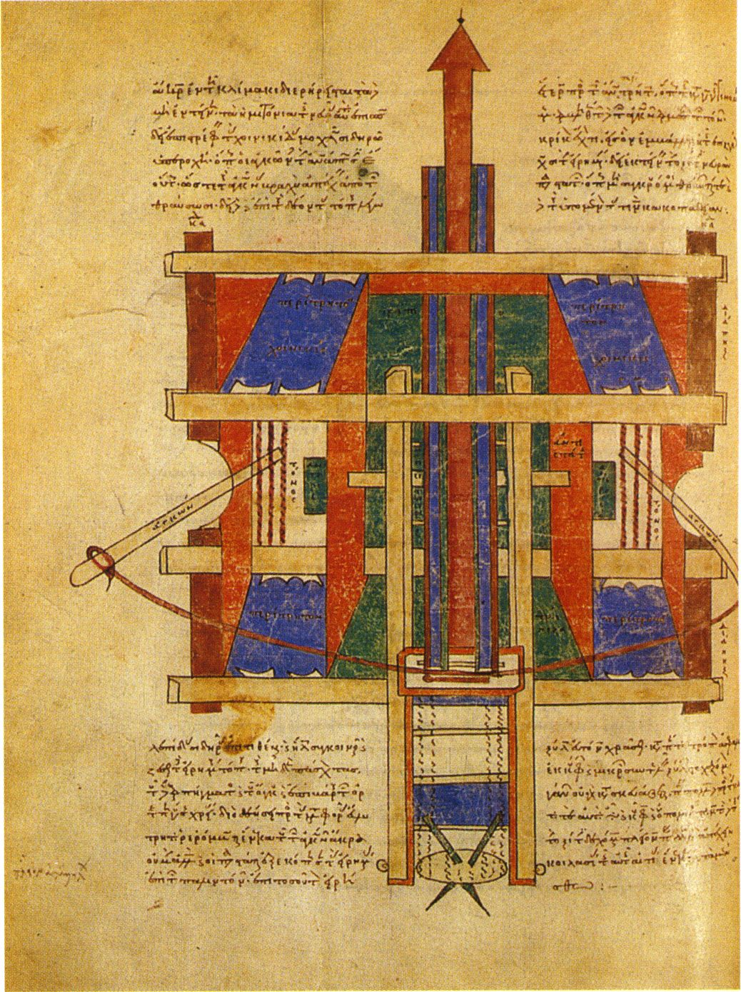 Hero of Alexandria, Belopoiika 23: Design drawing showing a big cannon. Manuscript Paris, Bibliothèque Nationale, Graec. 2442, fol. 76v.